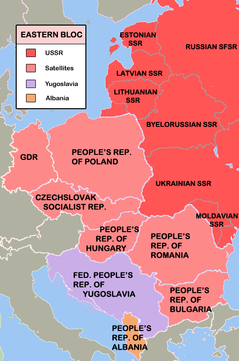 The Eastern Bloc - after the annexations and installations. Dark red is the expanded Russian SFSR, light red are annexed or expanded Soviet Socialist Republics and pink are Soviet satellite states.